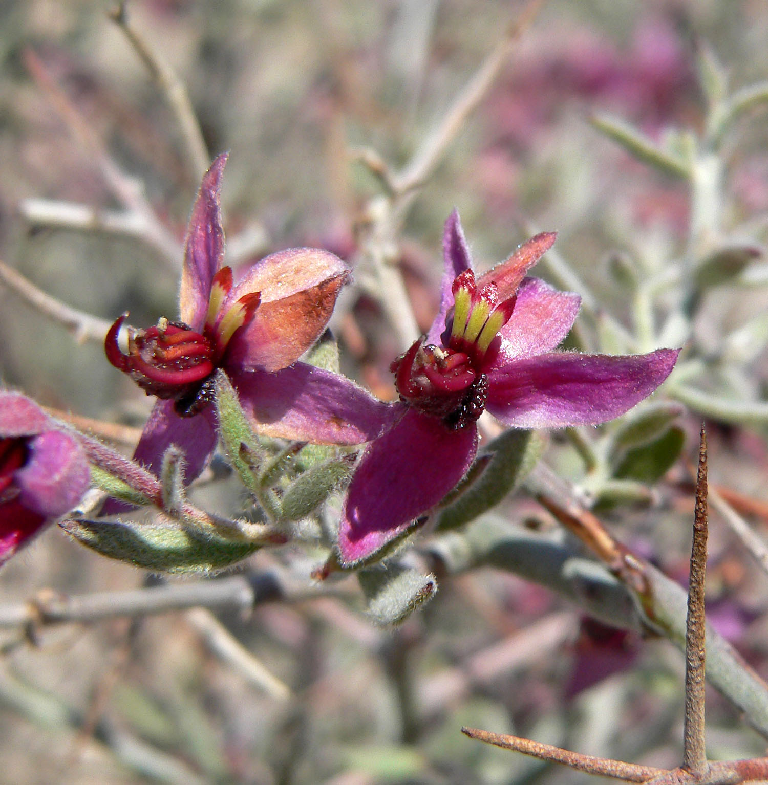 Krameria grayi near the Hidden Valley Road south of Moapa, southern Nevada